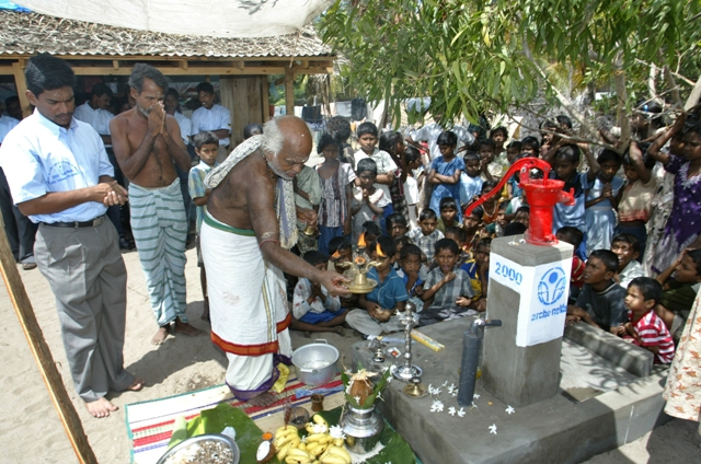 2000th well in sri lanka